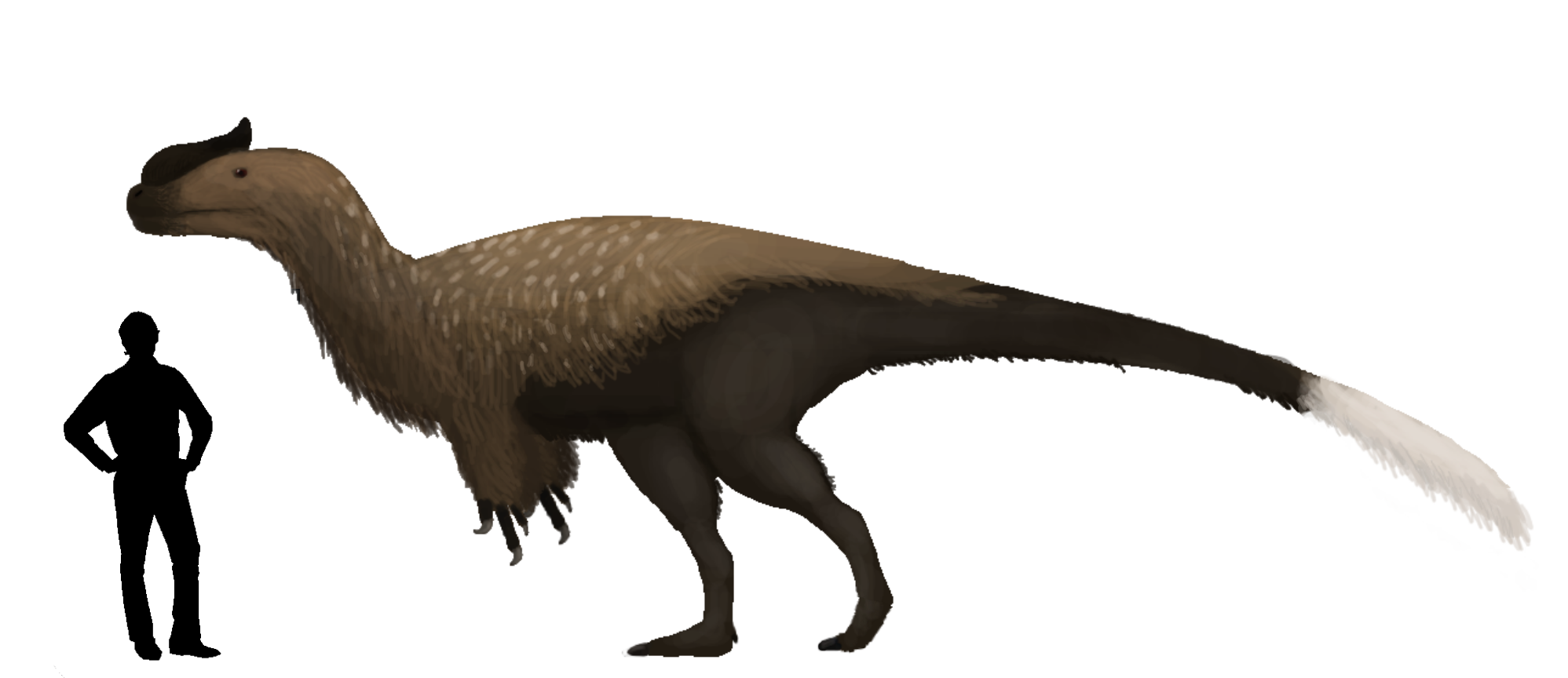 A sinotyrannus depiction